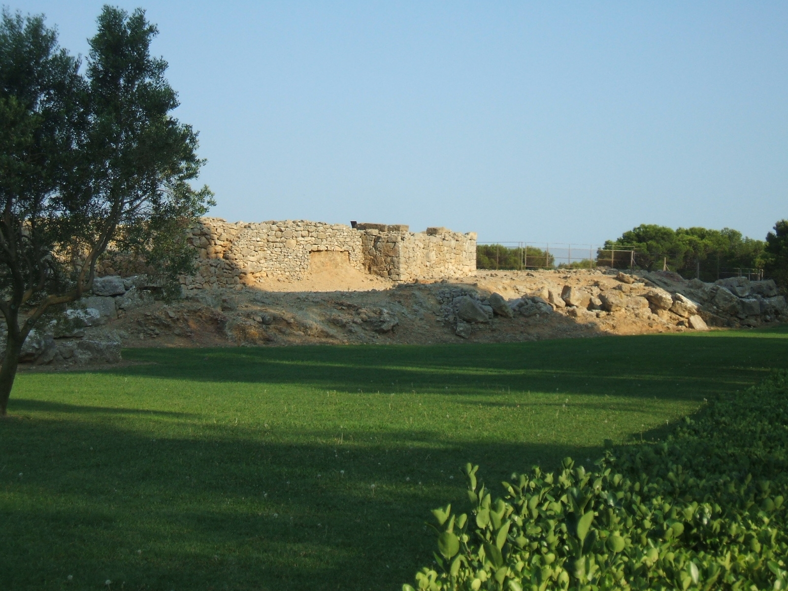 Empuries Archaeological Site (Catalunya, Spain) : Greek ruins of Neapolis ; the Acropolis, the highest part of the Neapolis.